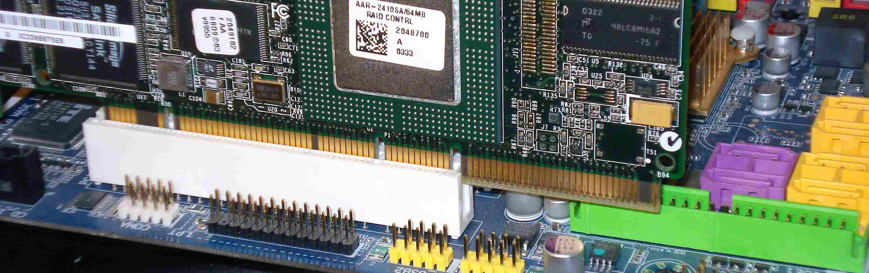 A semi-inserted PCI-X card in a 32 bit PCI slot, illustrating the extra notch necessary to remain backwards-compatible.